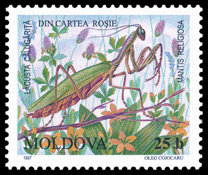 Stamp of Moldova